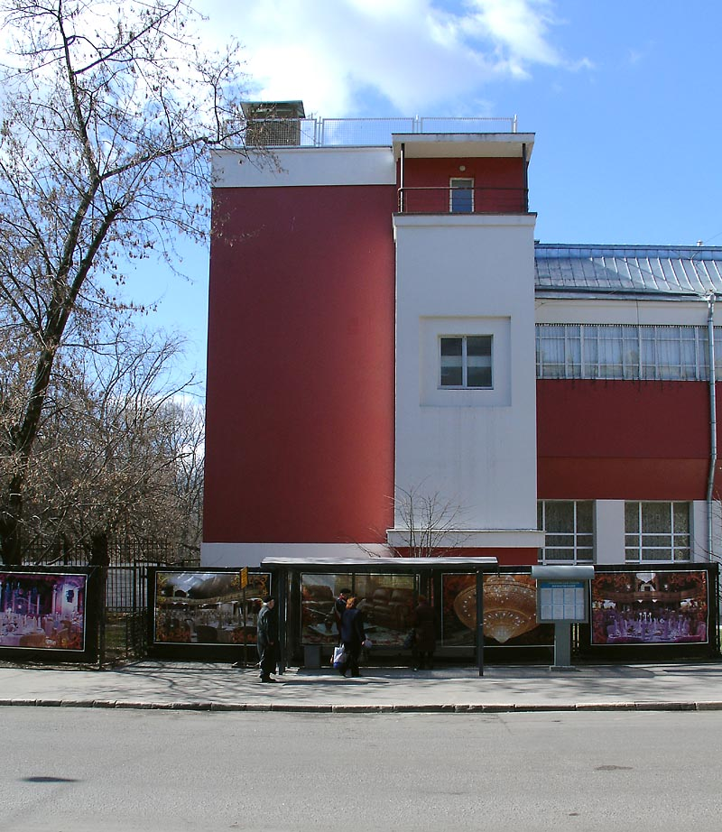 Svoboda Club by Konstantin Melnikov, side wing, Moscow, Russia.